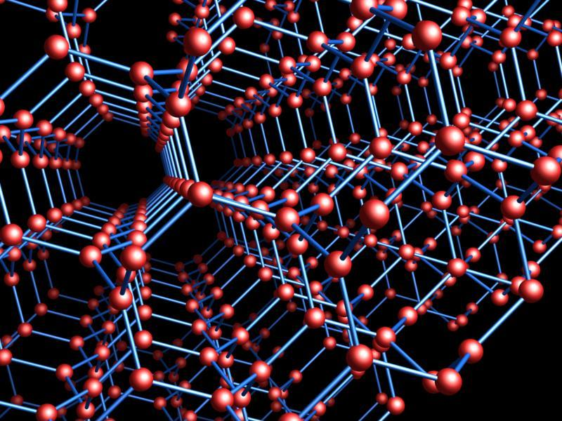 One can see many decagonal rings together with cavities.